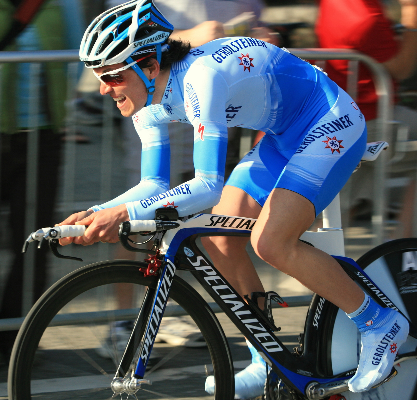 Oliver Zaugg at the Prologue of the Tour of California in Palo Alto